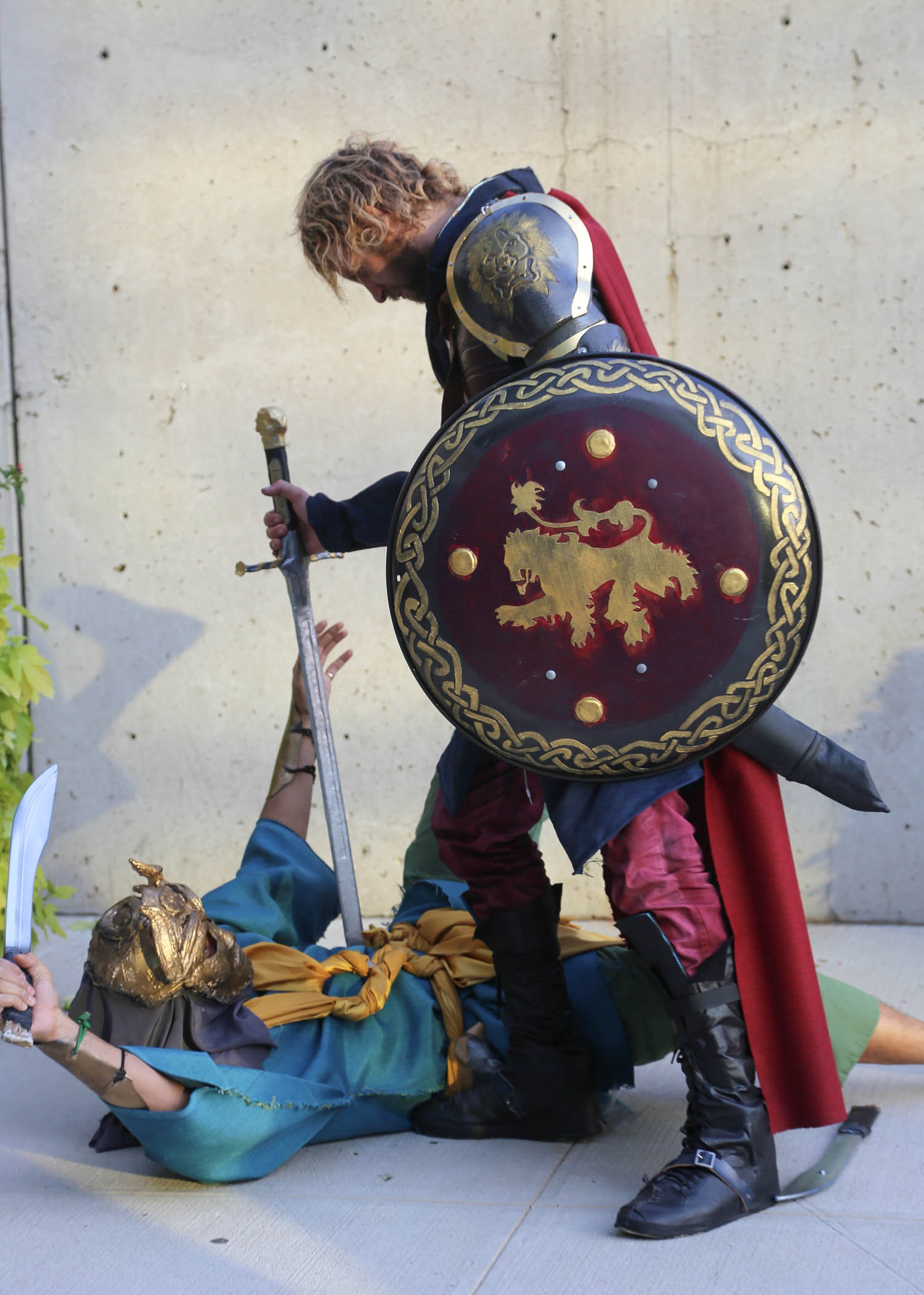 New York Comic Con 2015 - Lannister vs Sons of the Harpy Cosplay at the 2015 New York Comic Con (NYCC 2015).